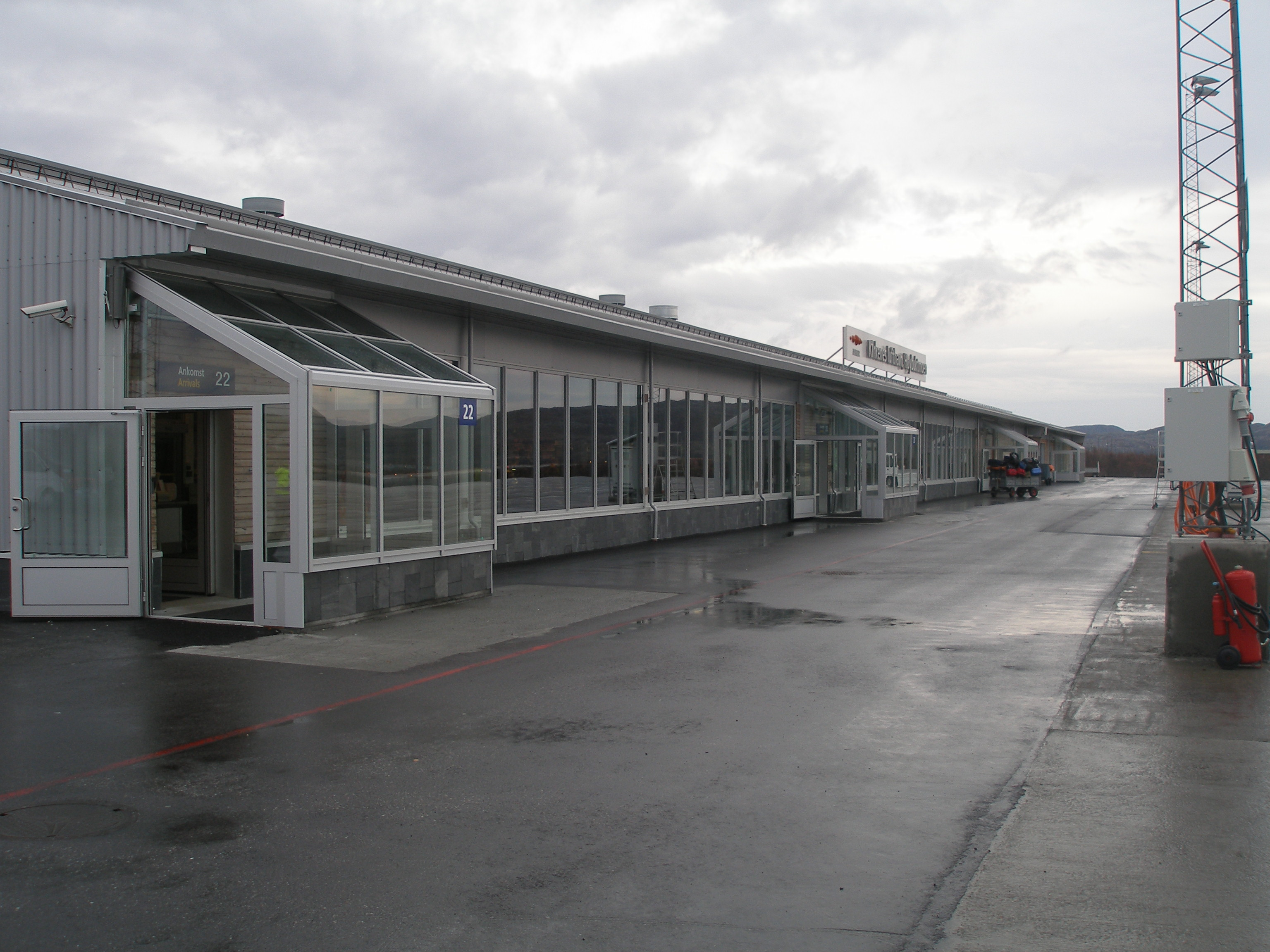 Kirkenes Airport terminal